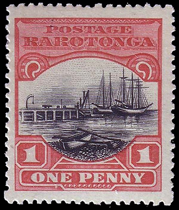 See title description